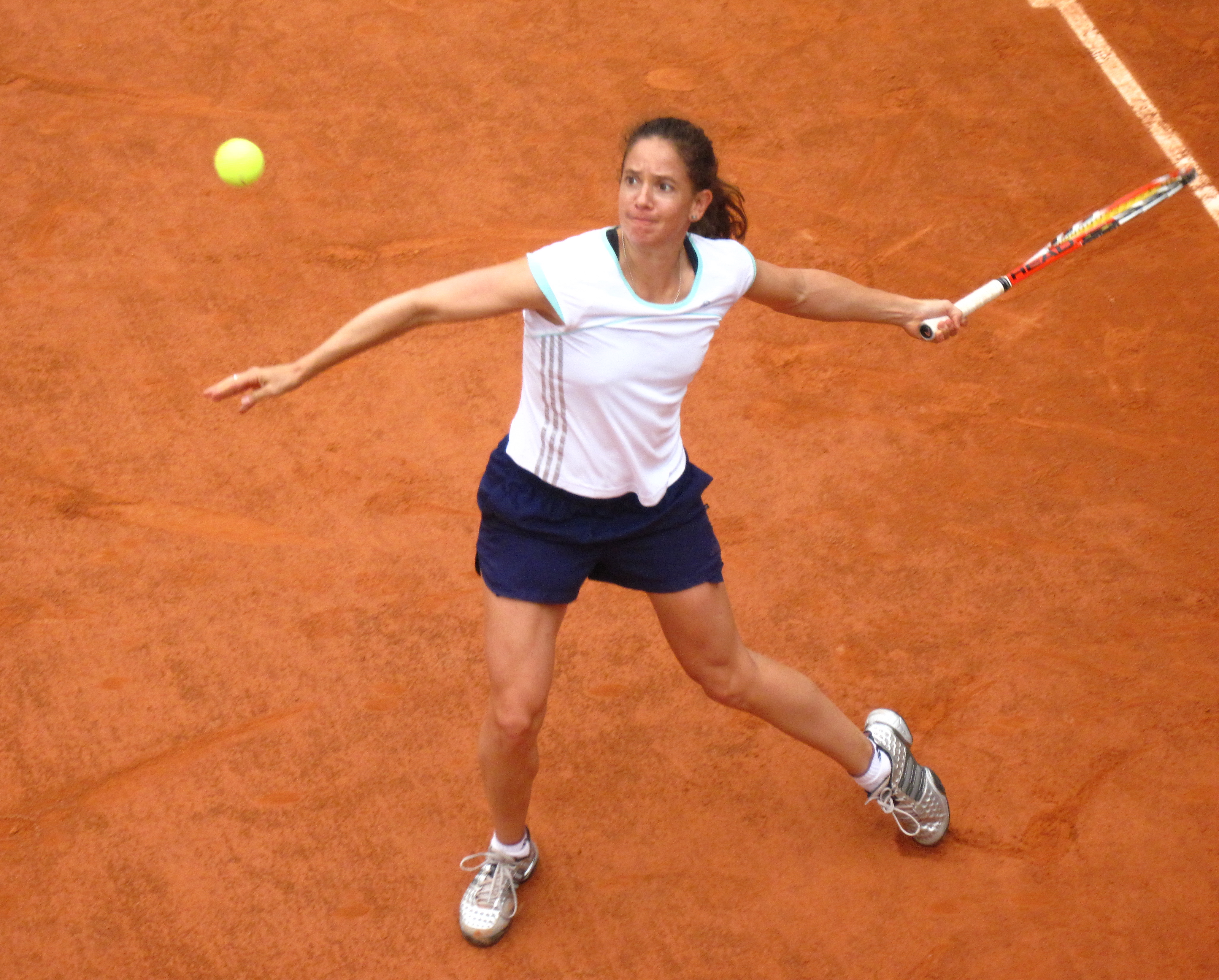 Patty Schnyder at 2009 Roland Garros, Paris, France